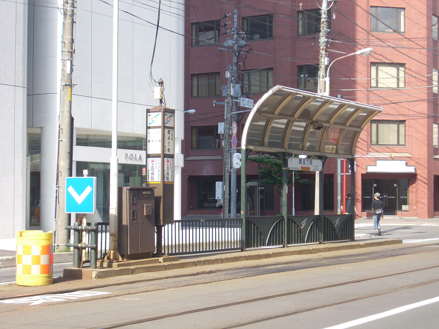 Sapporo street car Nishi hatchome station, Chuo-ku, Sapporo, Hokkaido, Japan